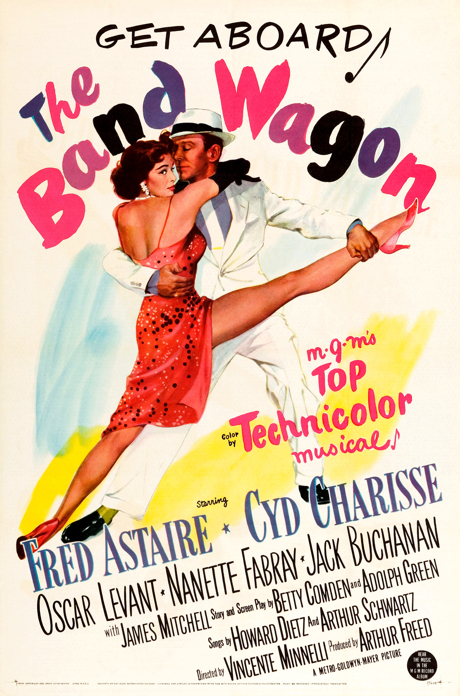 Theatrical poster for the American release of the 1953 film The Band Wagon.